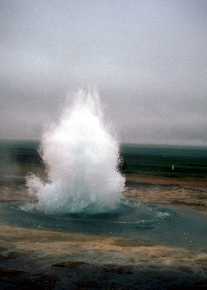 Geysir in Iceland on 25 Jul 1972. Picture taken and uploaded by Roger McLassus.